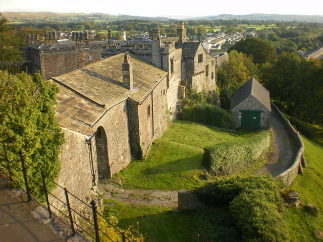 Clitheroe Castle Rear view of the North West Sound Archive